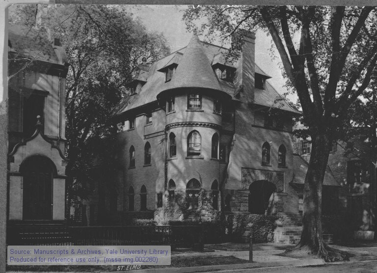 Picture taken in 1895 and publicly available online at Yale's Manuscripts and Archives.